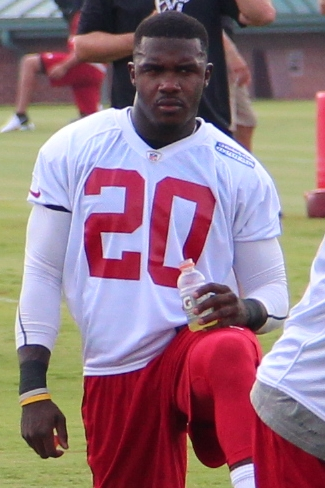 Charles Mitchell at Falcons training camp, 2013